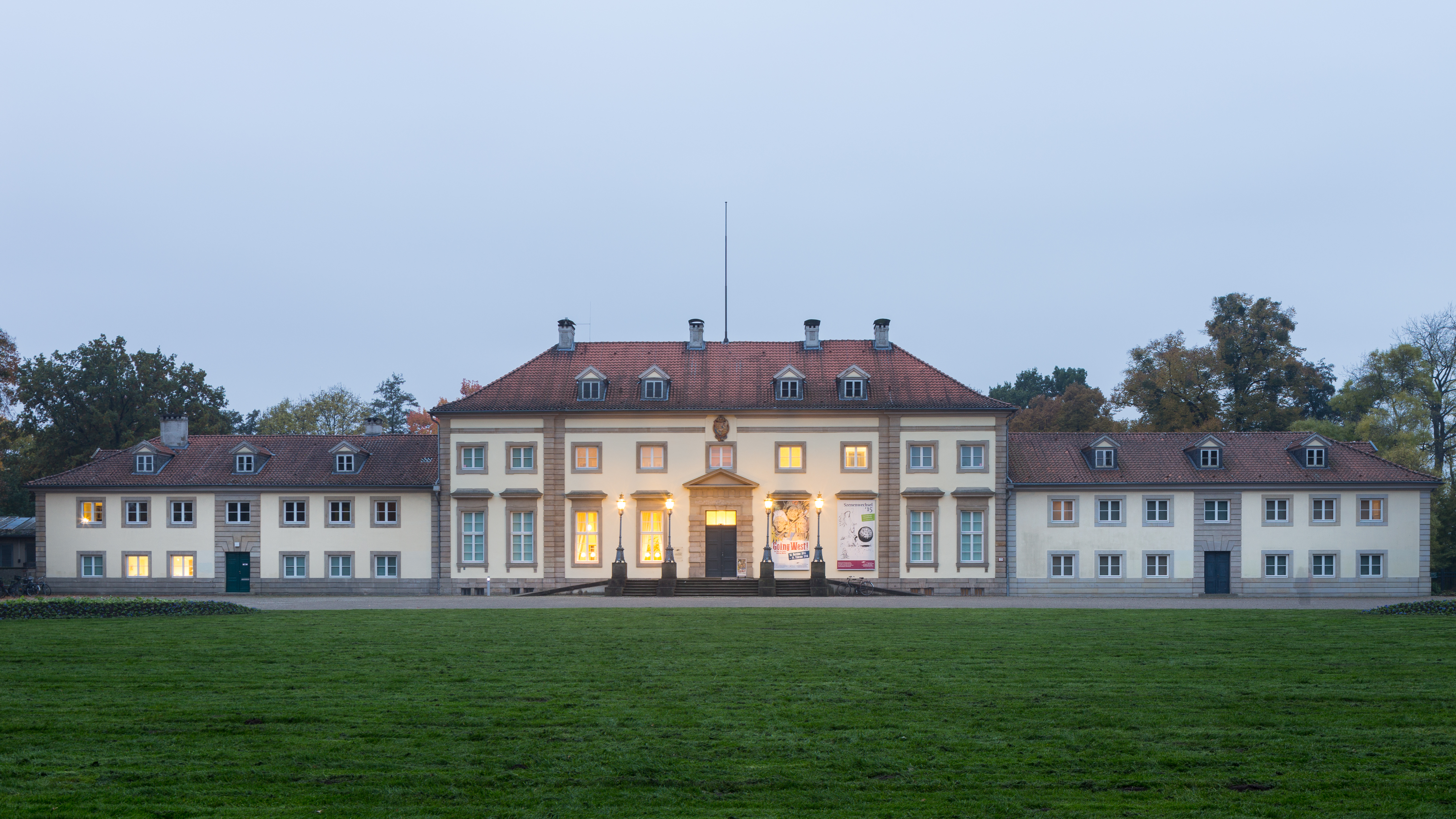 Georgenpalais building in Georgengarten garden in Nordstadt quarter of Hannover, Germany. The building houses the German museum for cartoons and caricature, named after German illustrator and poet Wilhelm Busch.